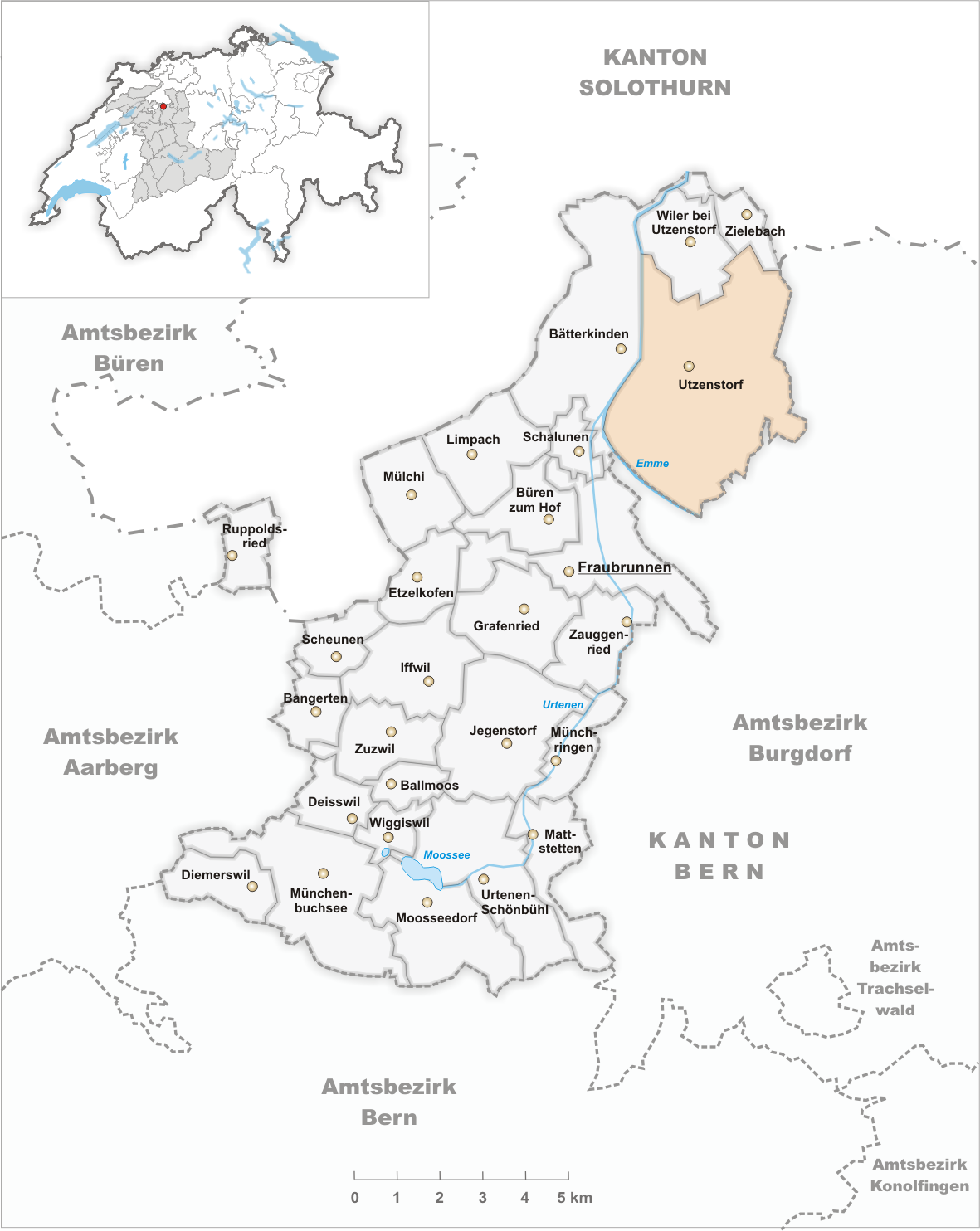 Municipality Utzenstorf